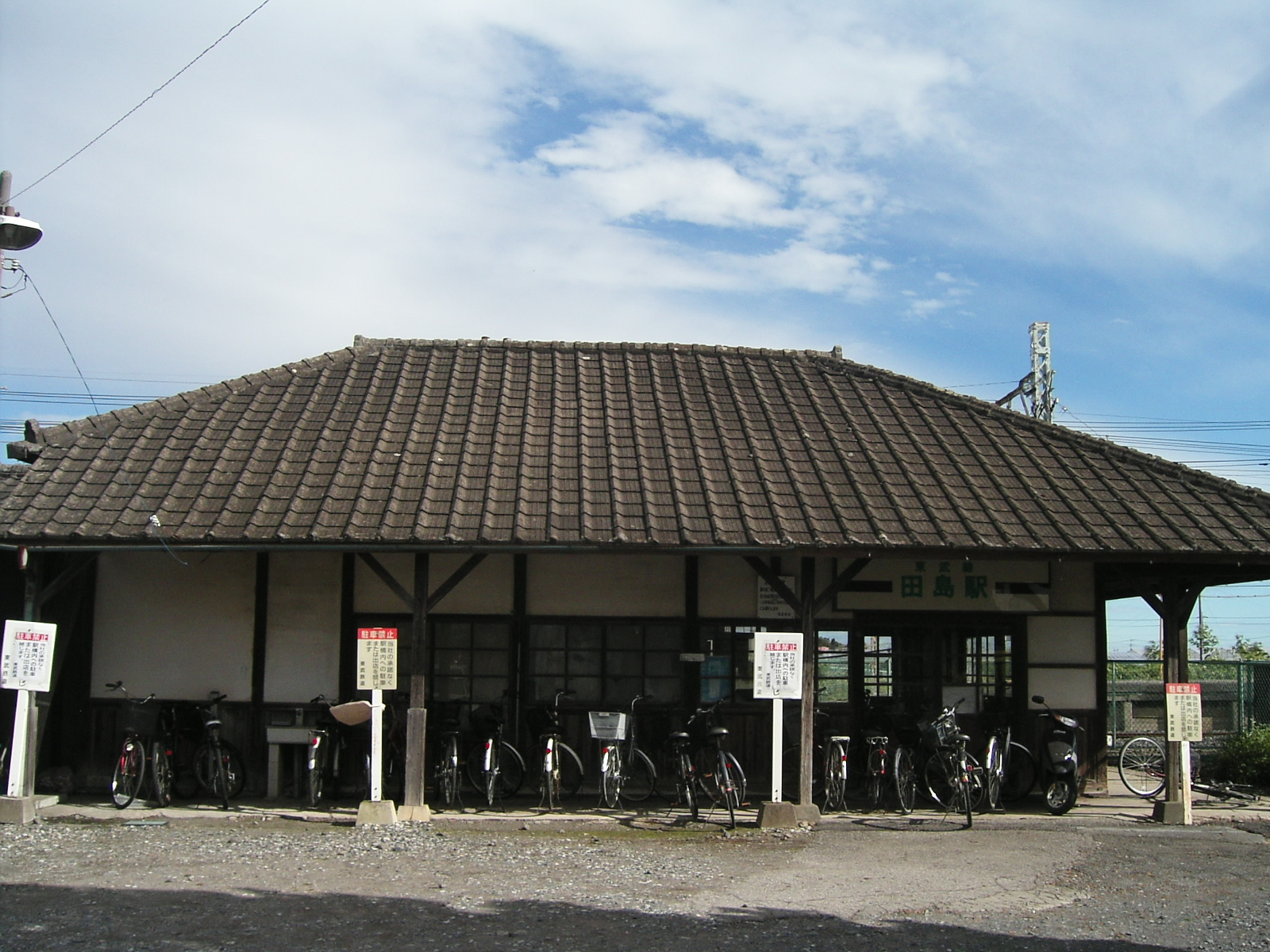 東武佐野線田島駅（栃木県佐野市）Tobu Railway Tajima Station in Sano City,Totigi pref. in Japan